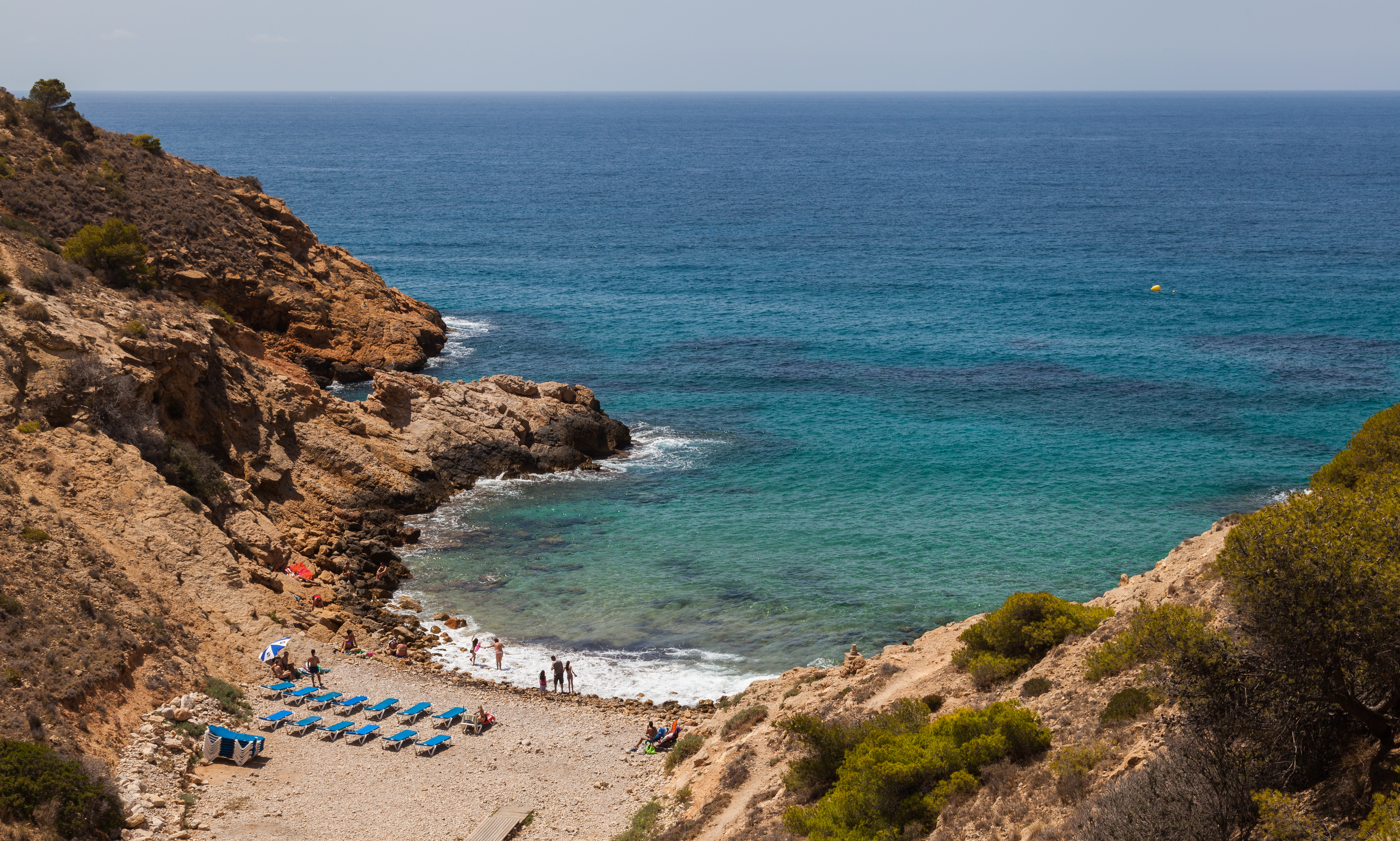 Cala Tío Ximo, Benidorm, Spain